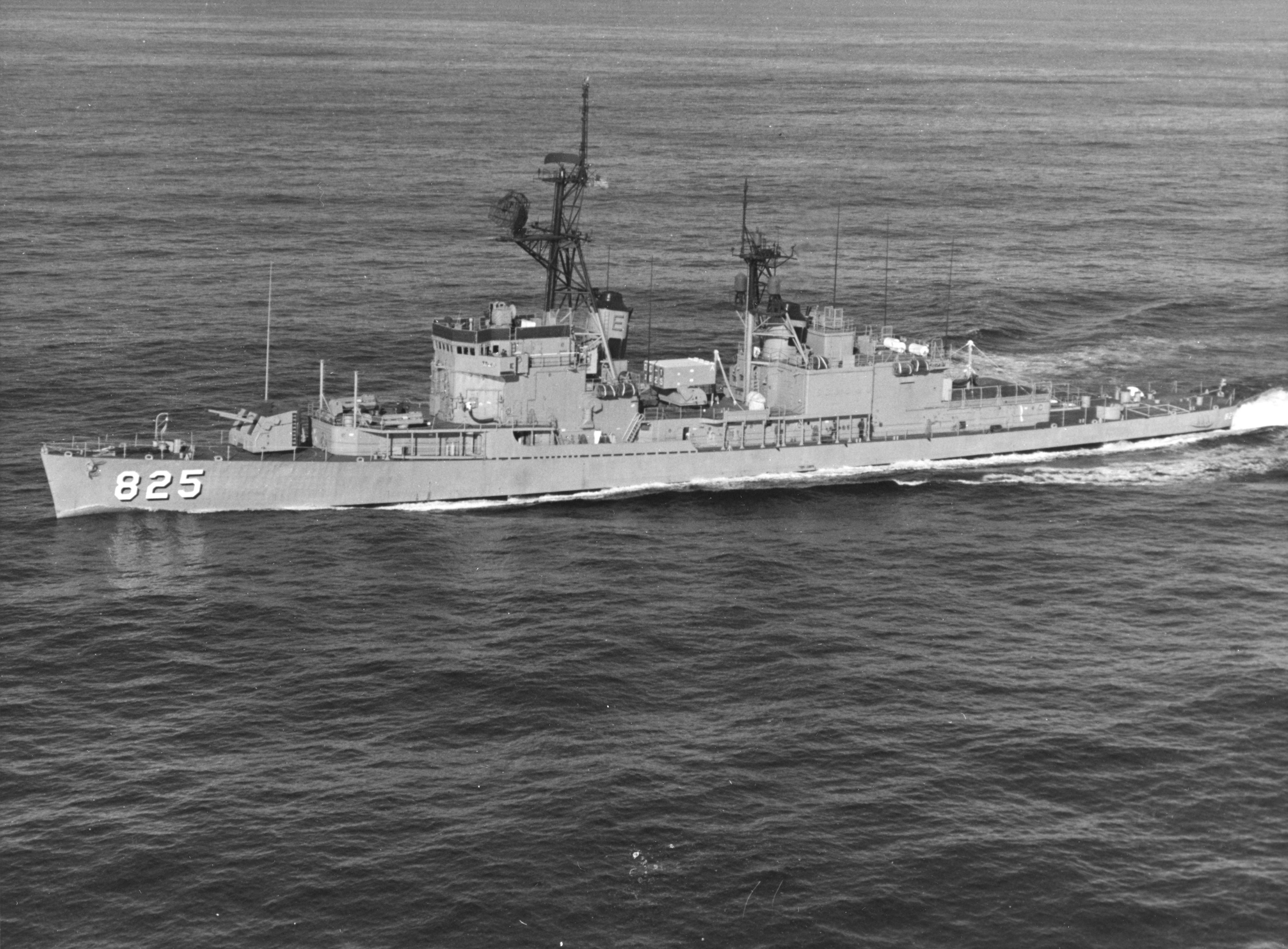 The U.S. Navy destroyer USS Carpenter (DD-825) underway off the coast of San Diego, California (USA), in February 1976.